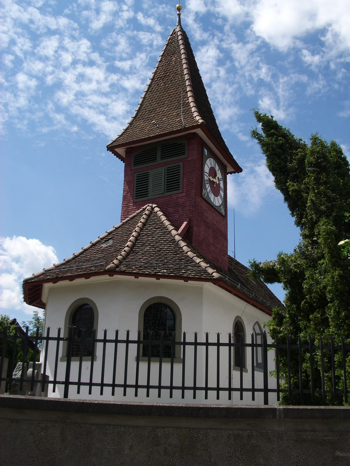 Oberhasli ZH, Switzerland